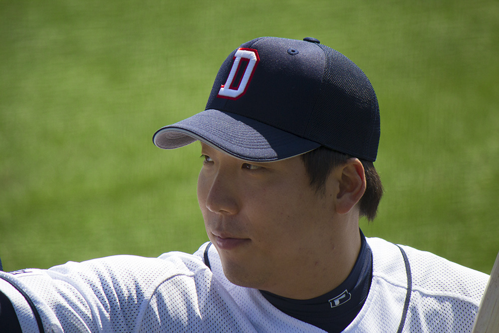 Kim Hyun-soo (baseball)